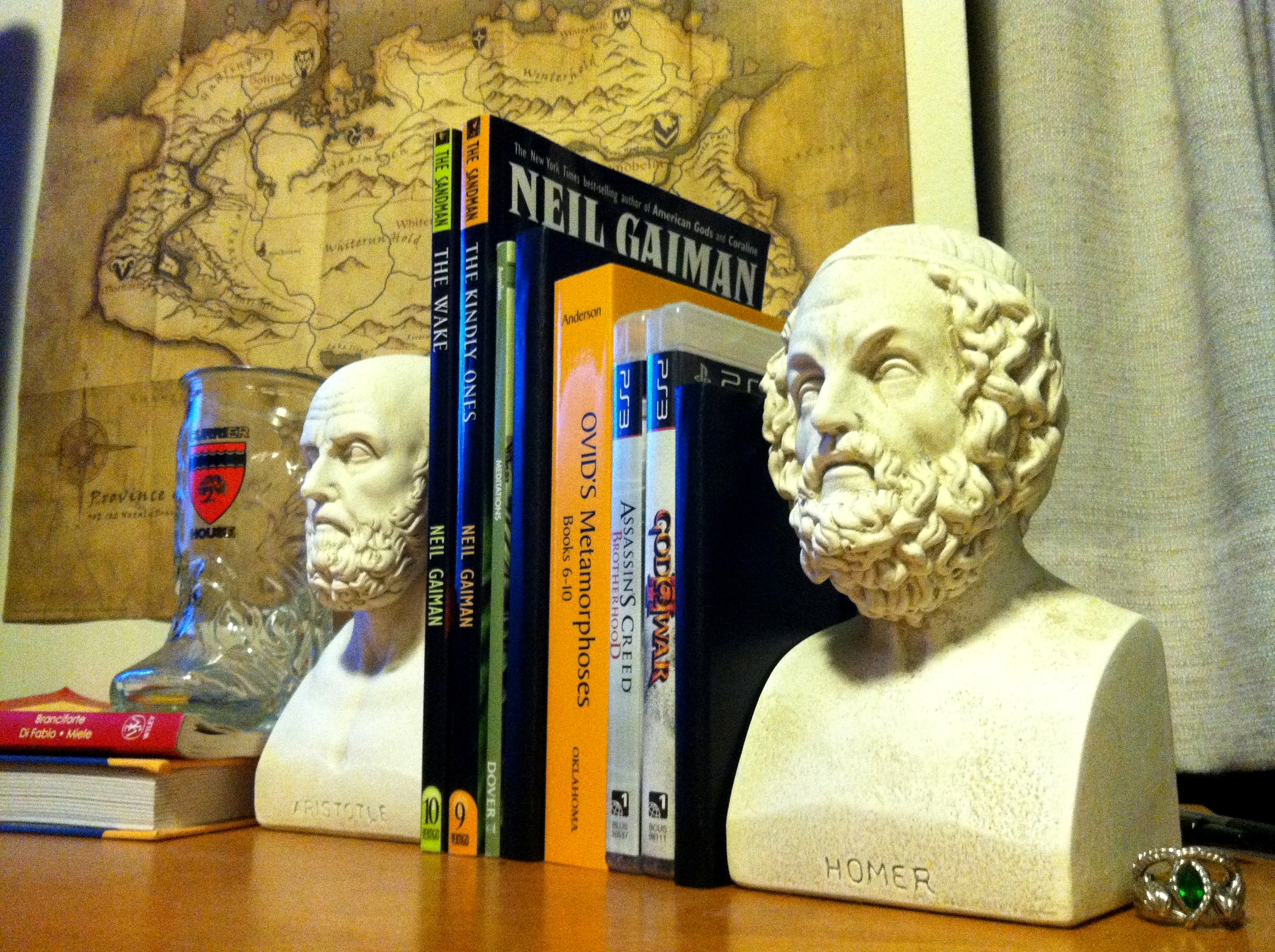 Two busts serving as bookends. Discovered in a student's dorm room in Currier House of Harvard College.